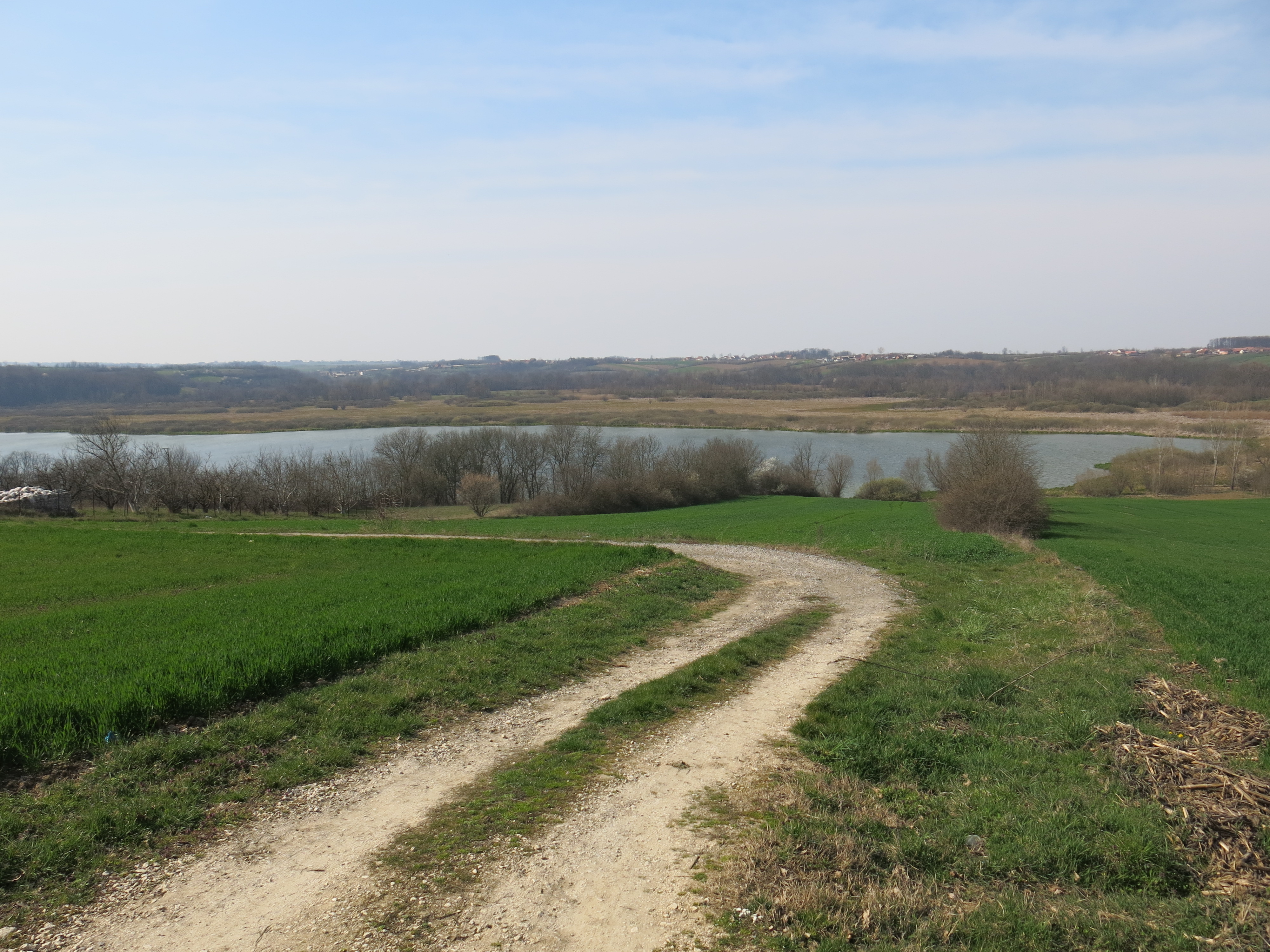 Vukošić, Vukošić lake